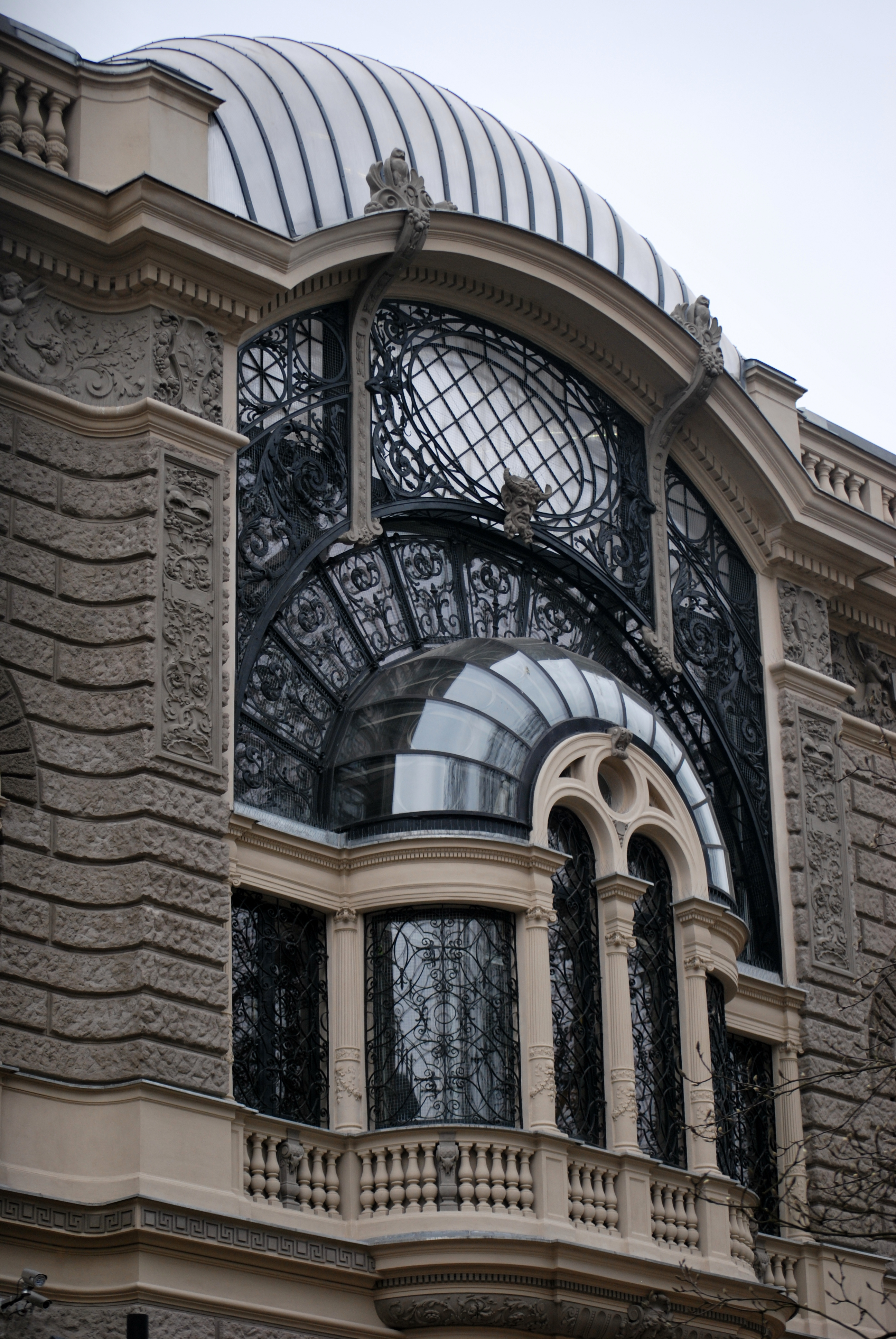 Winter garden window